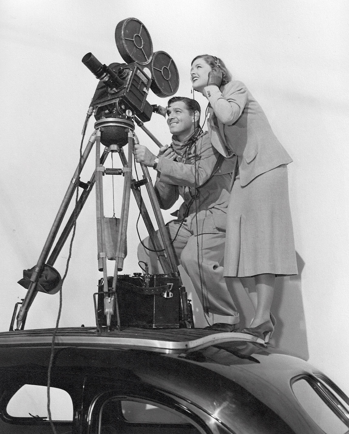 Clark Gable and Myrna Loy on set of Too Hot to Handle, 1938